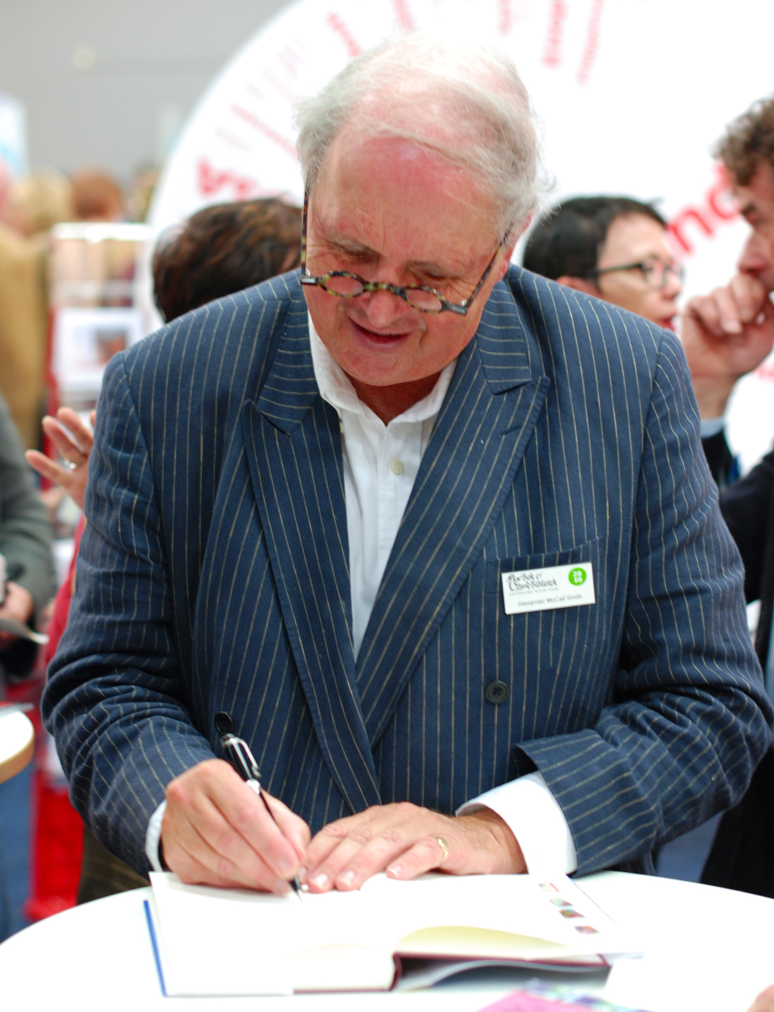 Author Alexander McCall Smith signing books at Göteborg Book Fair 2010